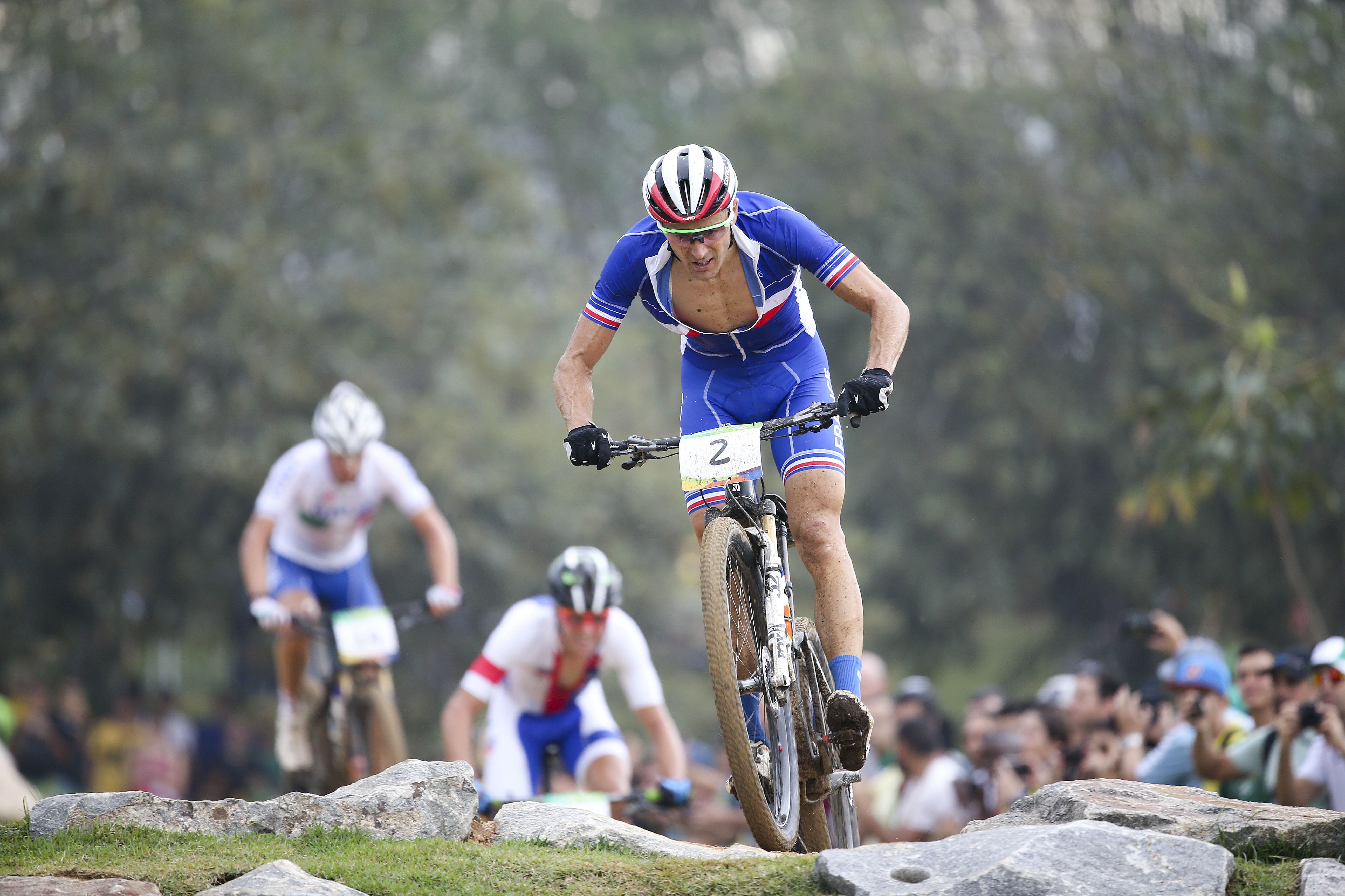 Cycling at the 2016 Summer Olympics – Men's cross-country